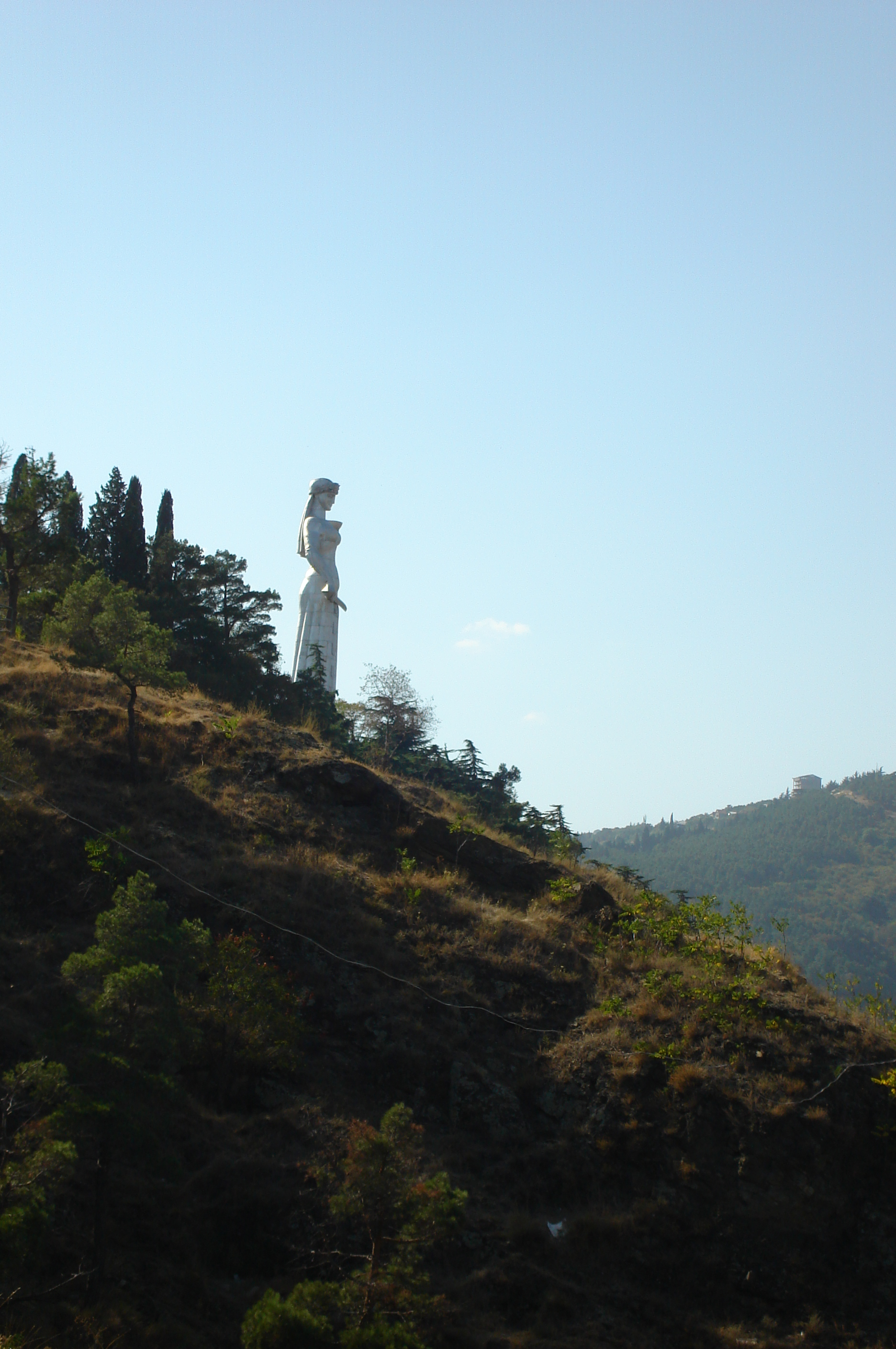 Mother of Georgia monument in Tbilisi